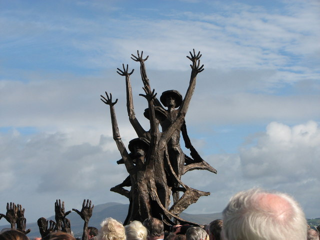 Bronze statue The bronze statue depicting the Flight of the Earls.The lower part of the sculpture is hidden by the crowd.